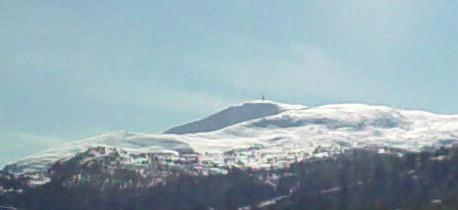 The mountain "Lønahorgi" near Voss, Norway. Seen from Engjaland.